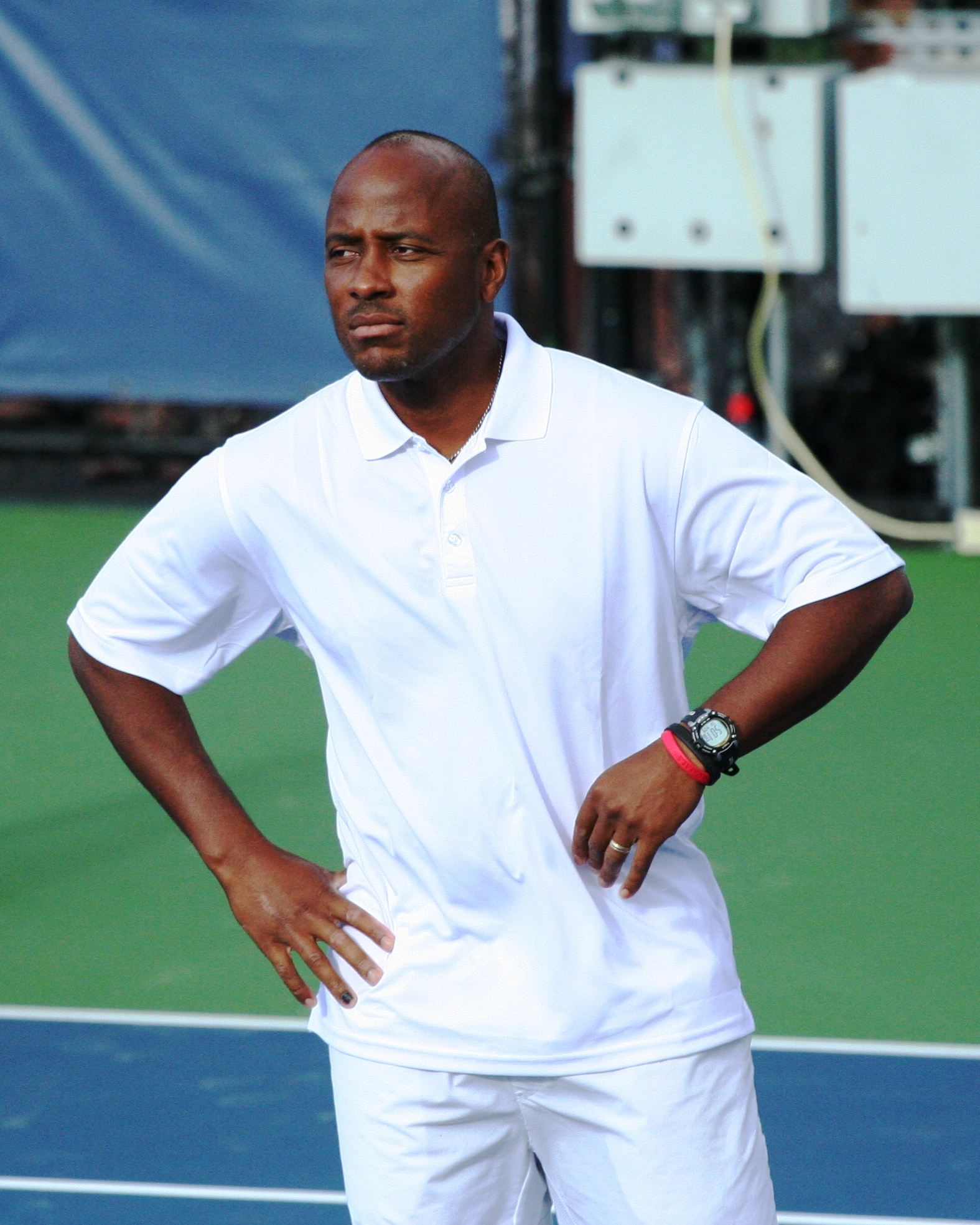 U.S. Open Champions Team Tennis Thursday, Sept. 9, 2010